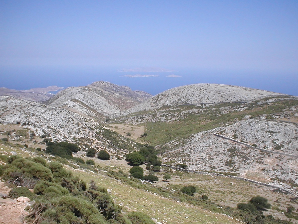 View from Mount Zas, Náxos.